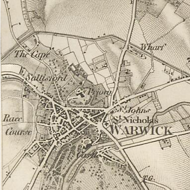 OS map of Warwick in 1834. Scale 1:63360 (ie: one inch to one mile).